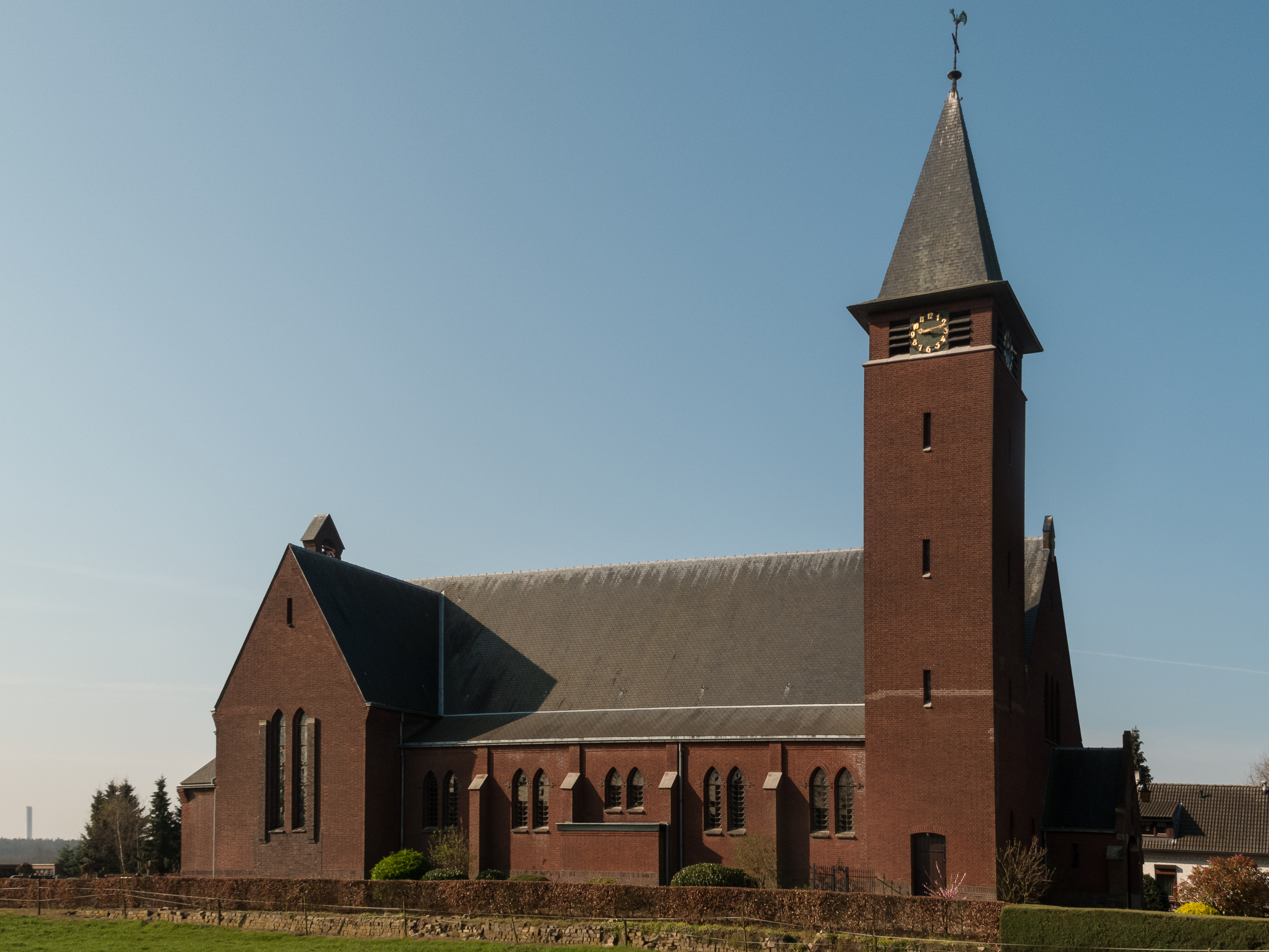 Asenray, church: kerk-Onze Lieve Vrouw van Goede Raad en Heilige Jozef